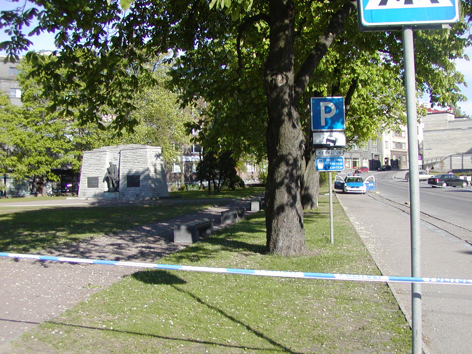 Bronze Soldier of Tallinn, World War II memoral commemorating the libration of Estonia from Nazism by Soviet and Estonian SSR forces. Quarantined off in May 2006 to prevent celebration of Victory in Europe Day.